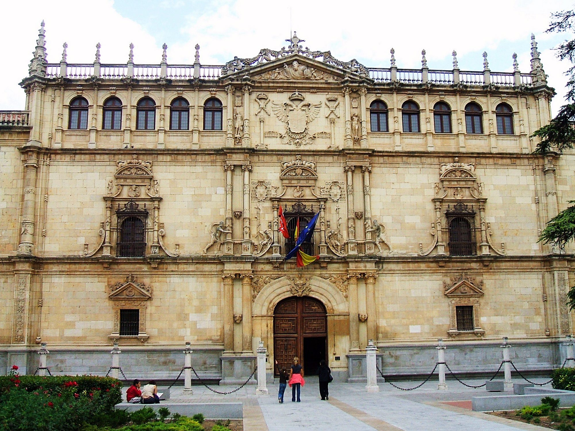 Colegio Mayor de San Ildefonso, Universidad de Alcalá de Henares (Madrid, España)